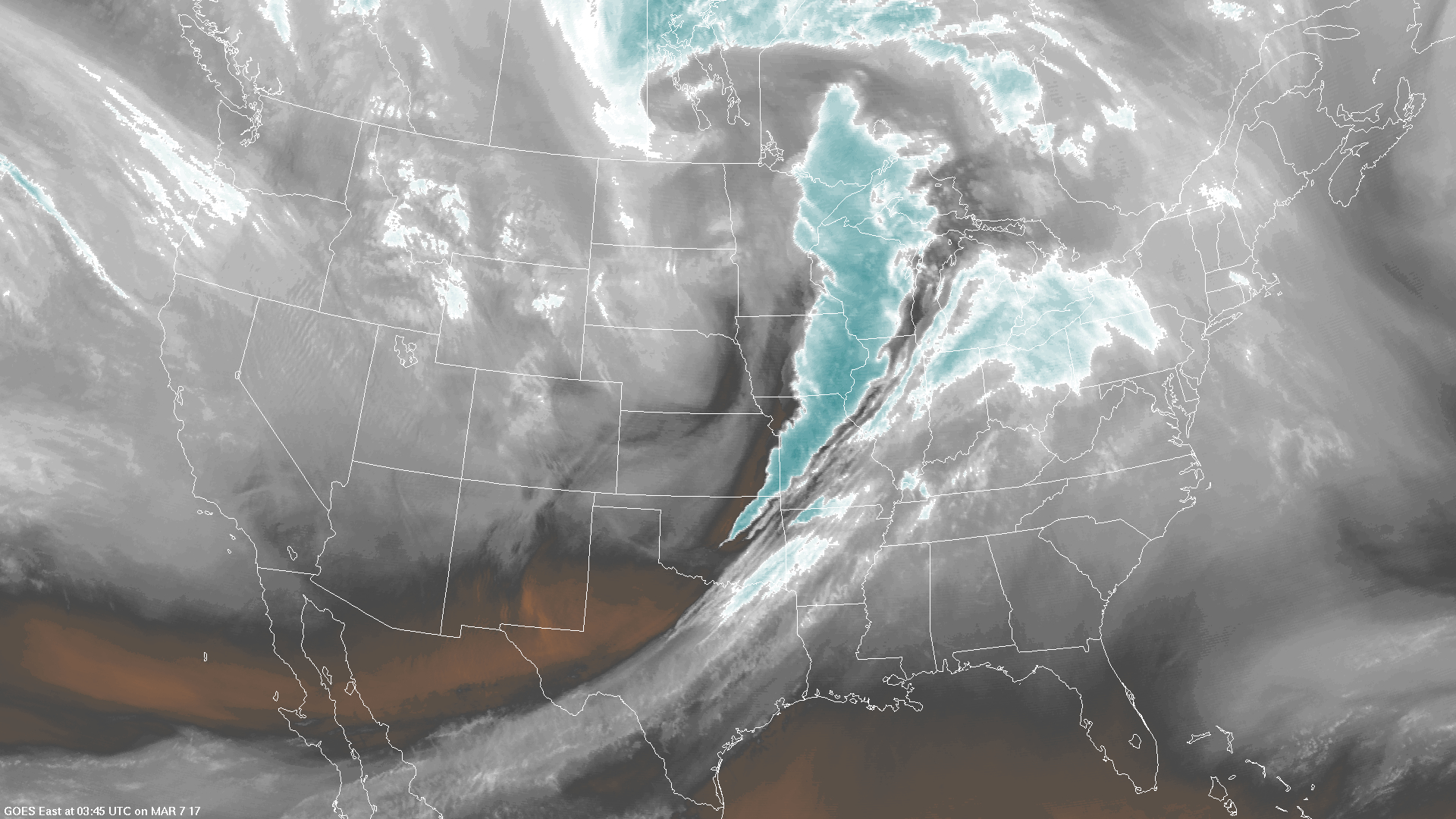 Water vapor imagery of a tornado-producing storm system over North America on March 7, 2017 at 3:45 UTC.